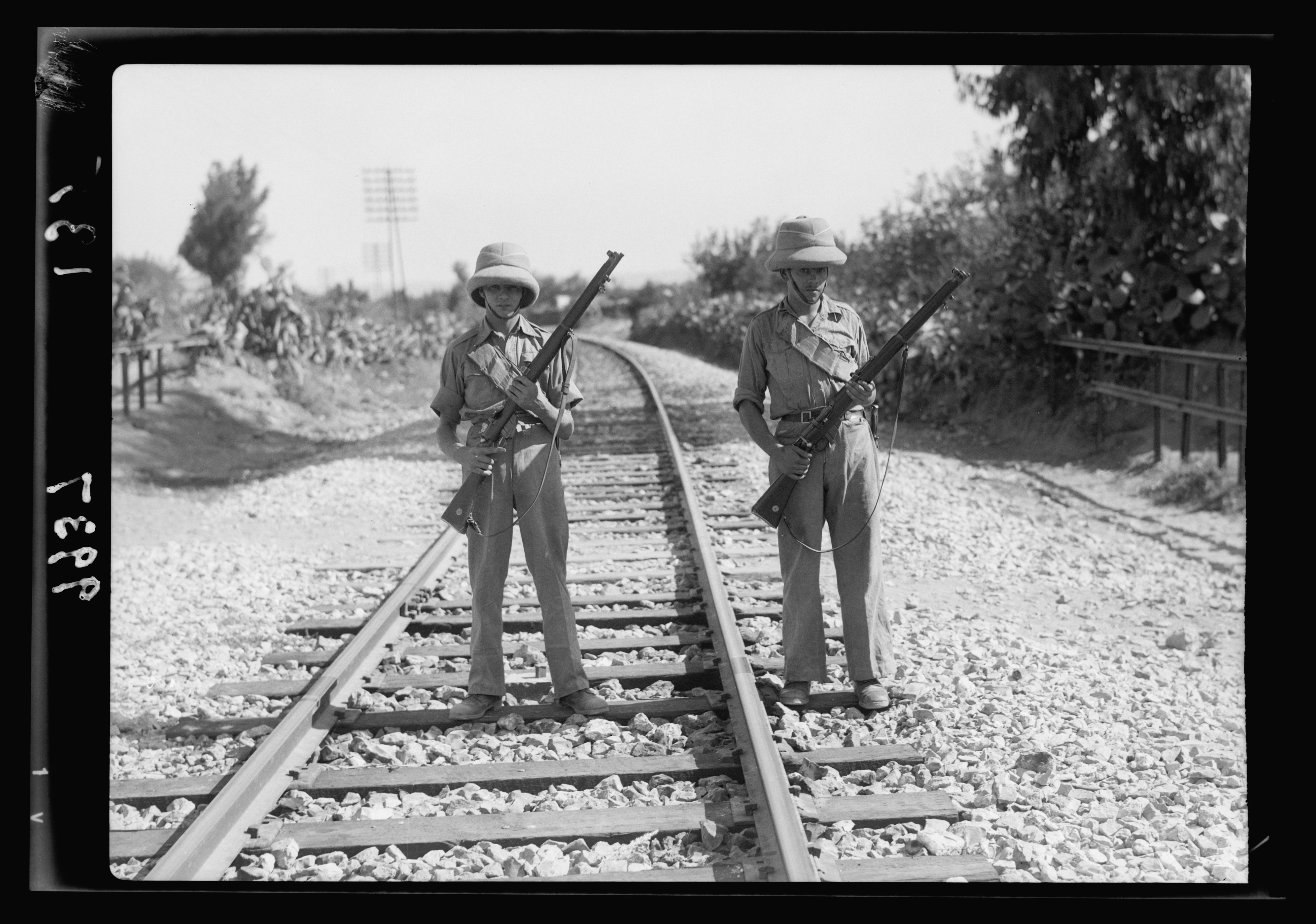 Title: British troops guarding RR [i.e., railroad] near Lydda junction, Oct. 12, '38 Abstract/medium: G. Eric and Edith Matson Photograph Collection Physical description: 1 negative